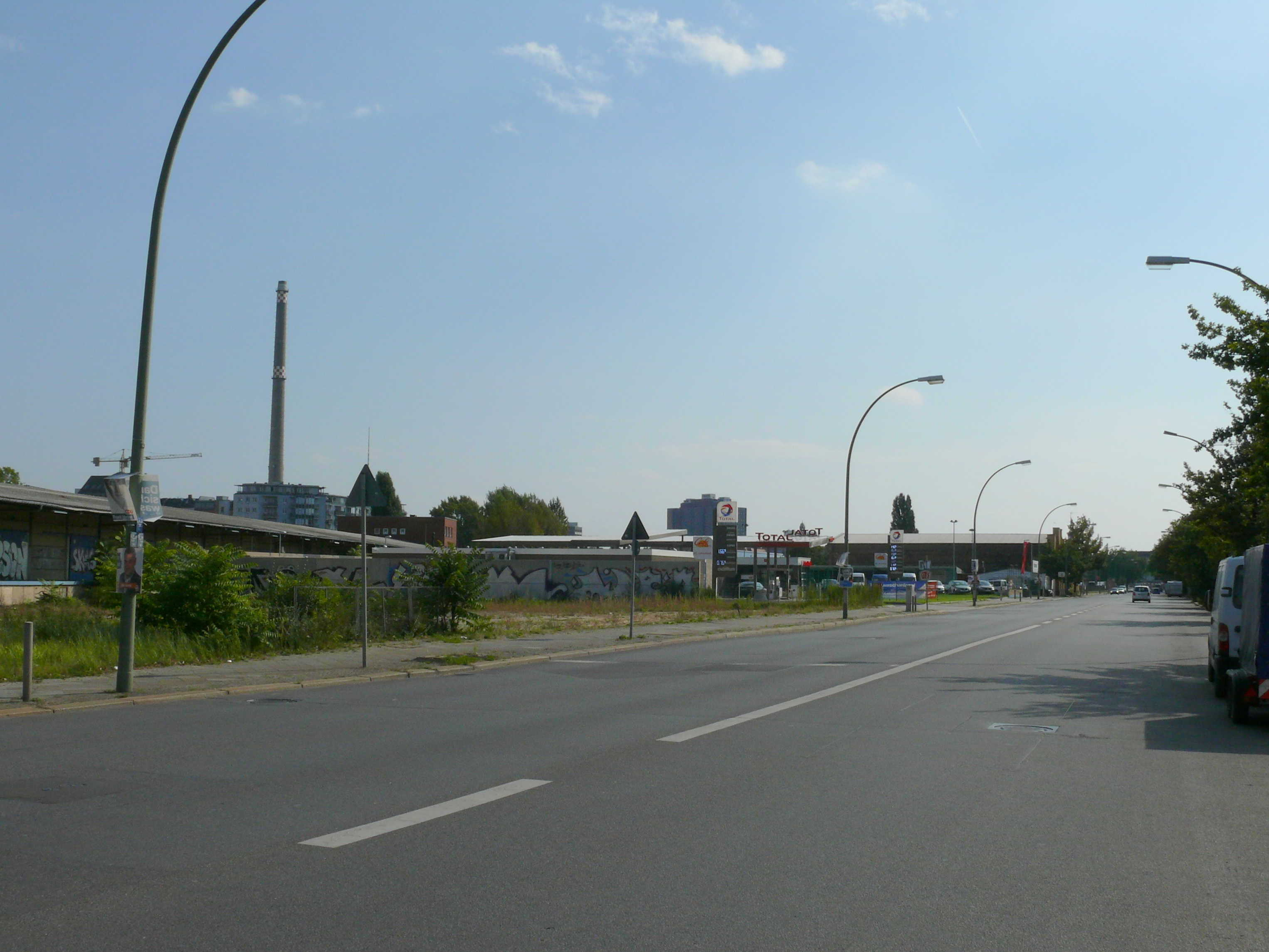 Berlin-Moabit Heidestraße